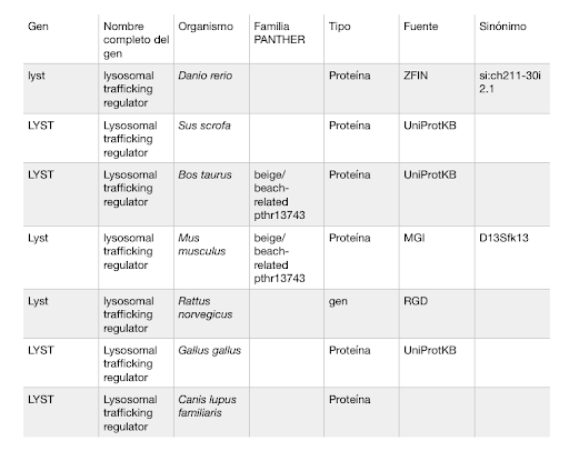 Orthologous organisms for the LYST gene.